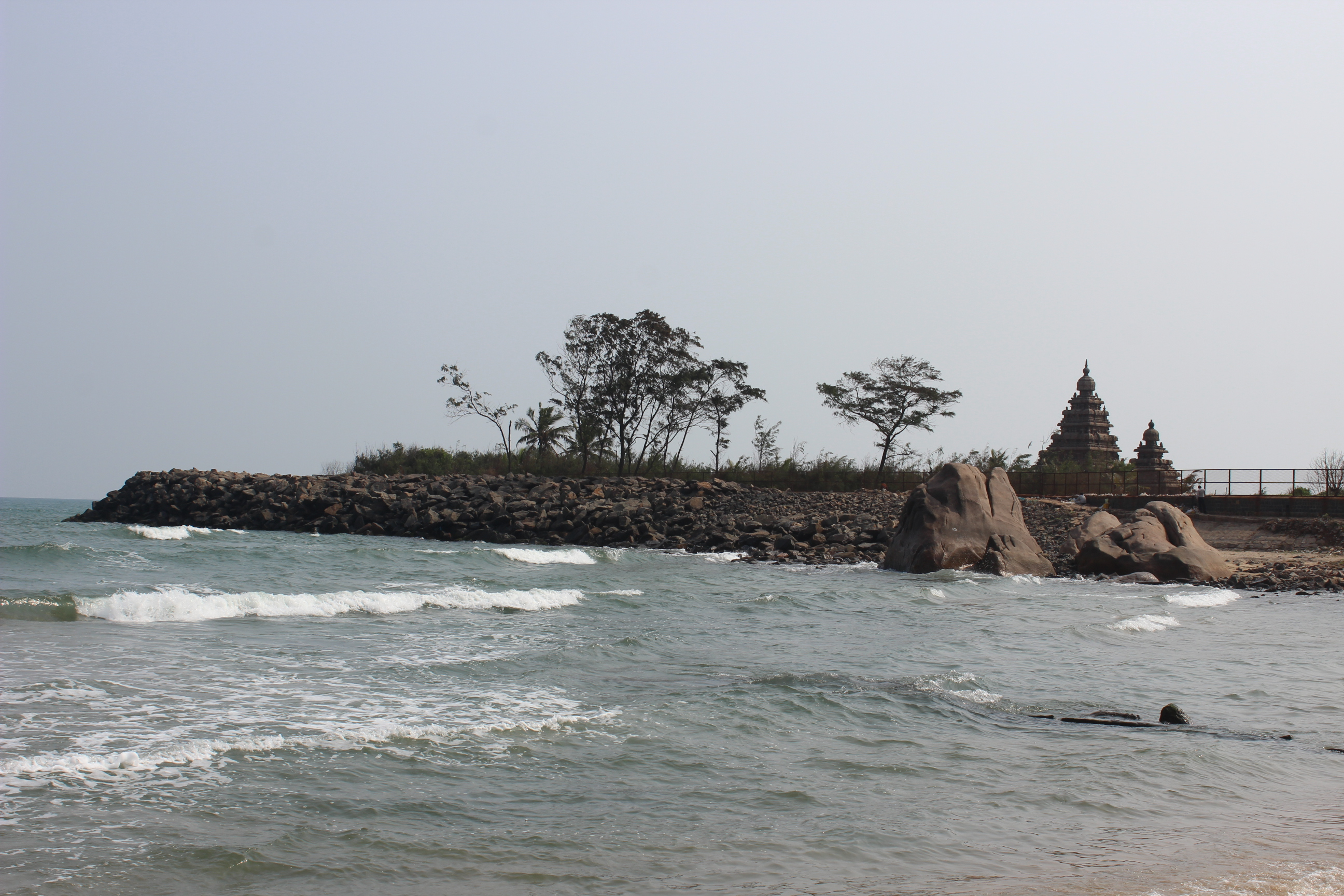 Mamallapuram Shore Temple View from beach